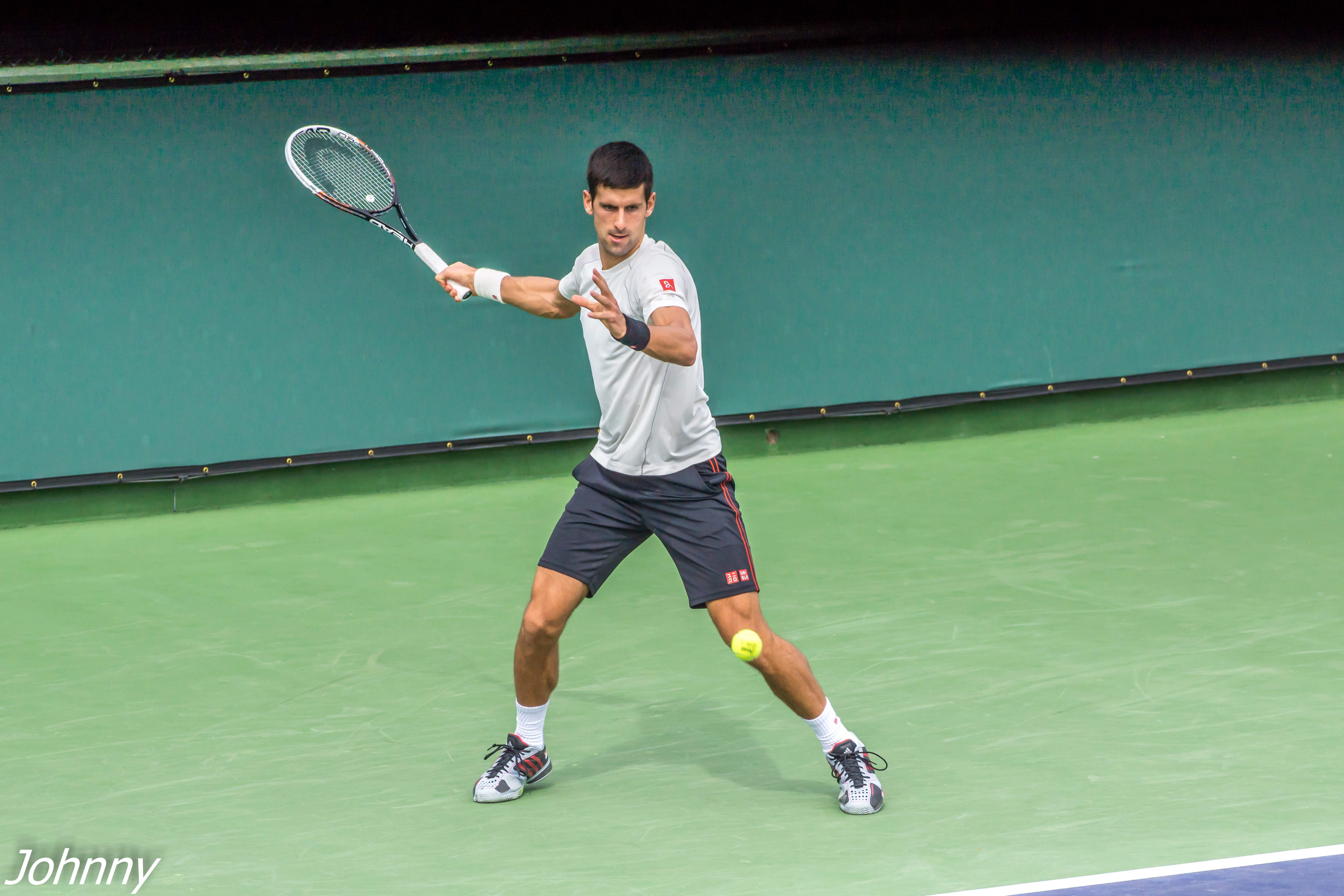 Trening sa Vajdom